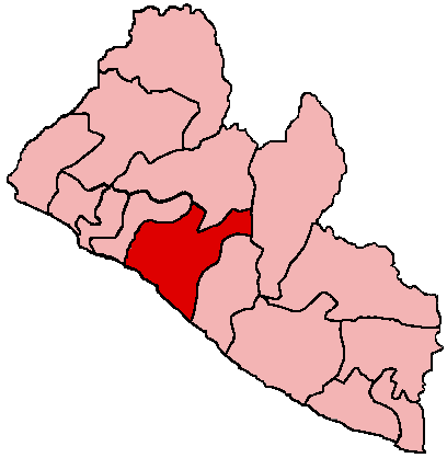 Map of Liberia showing Grand Bassa County; created with the GIMP. Made by User:Acntx.